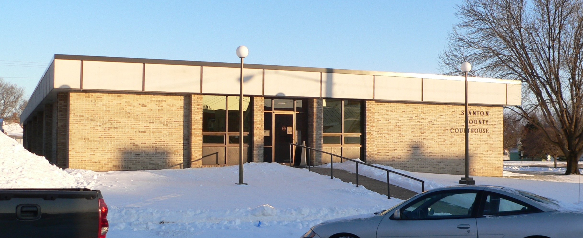 Stanton County Courthouse in Stanton, Nebraska; seen from the west. The building was designed by architect Everett J. Simpson and constructed in 1976.